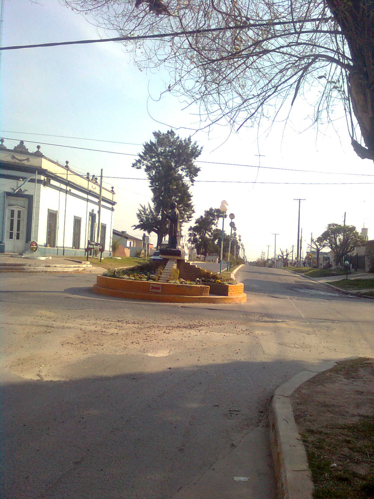 Rotonda de acceso por avenida Friuli. De azul edificio de la Comisaria